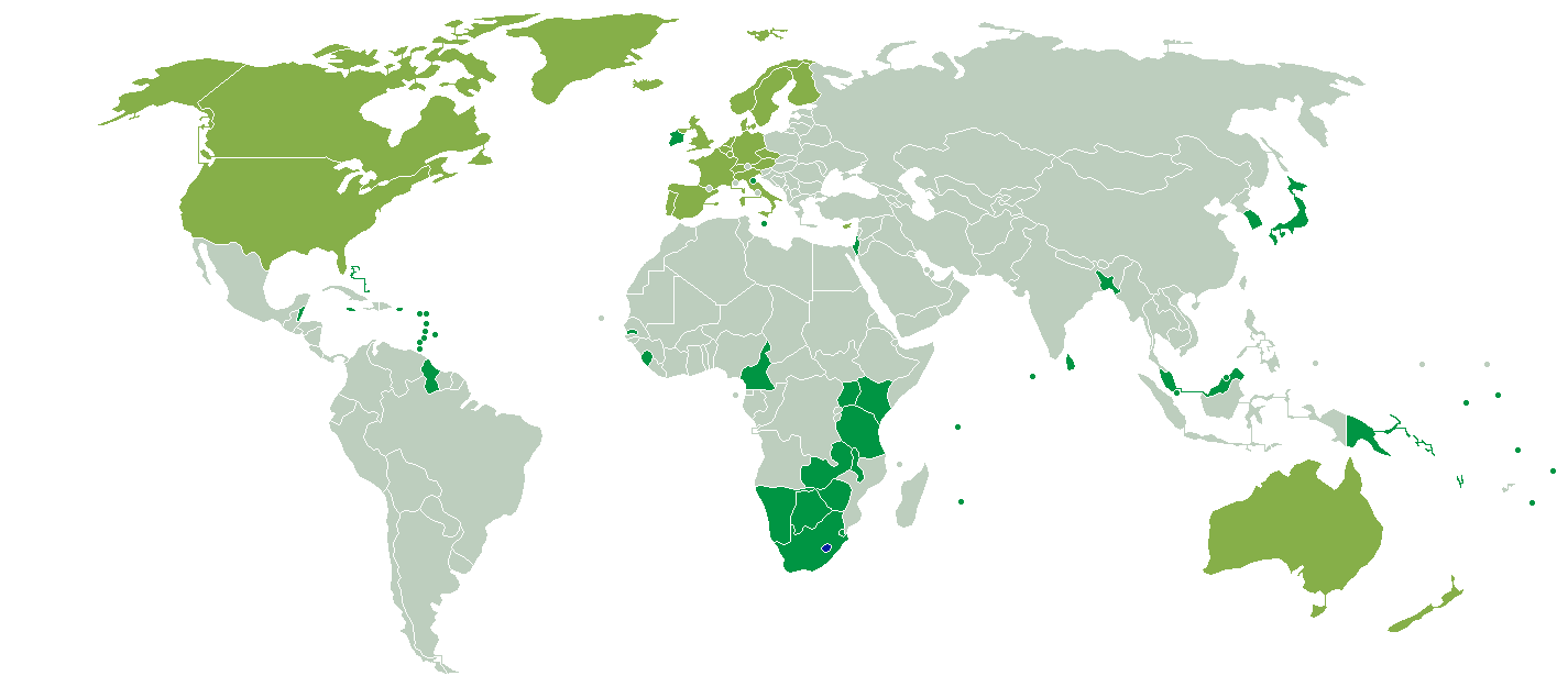 Visa policy of Lesotho Lesotho Visa exempt for 90 days Visa exempt for 14 days eVisa